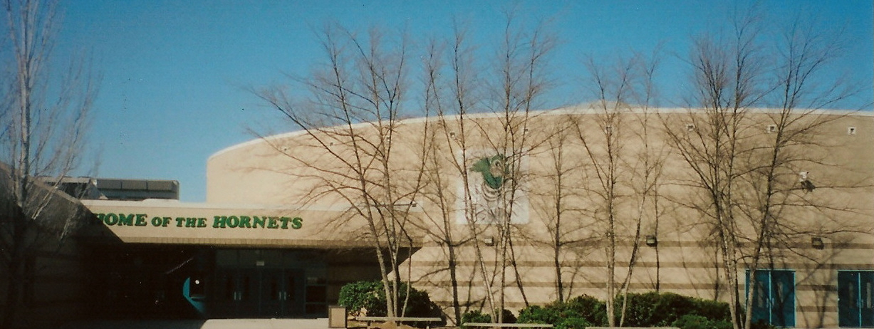 Exterior of main Roswell High School gymnasium including the ticket booth entrance